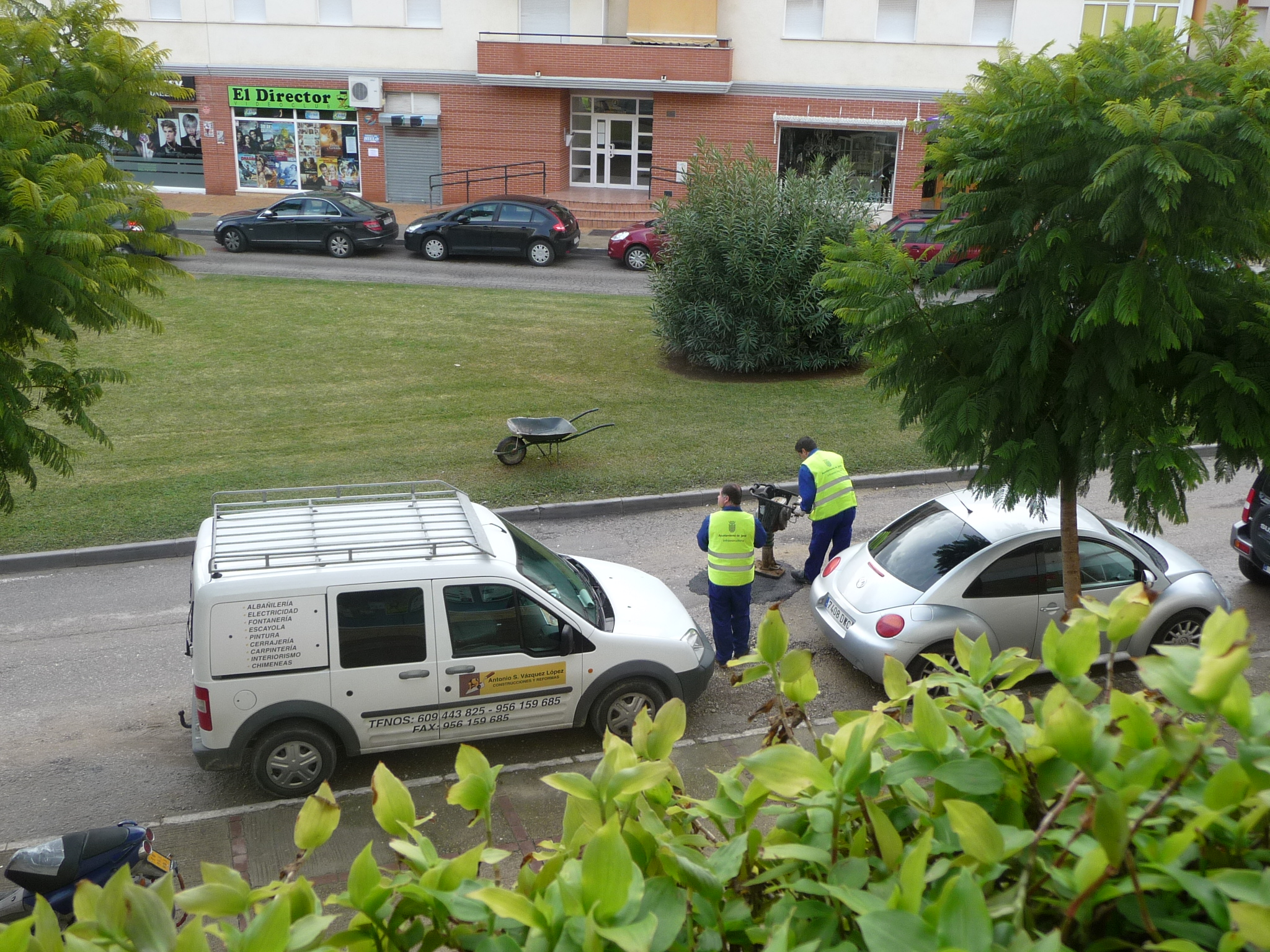 Roadworks in Jerez de la Frontera (Andalusia, Spain)